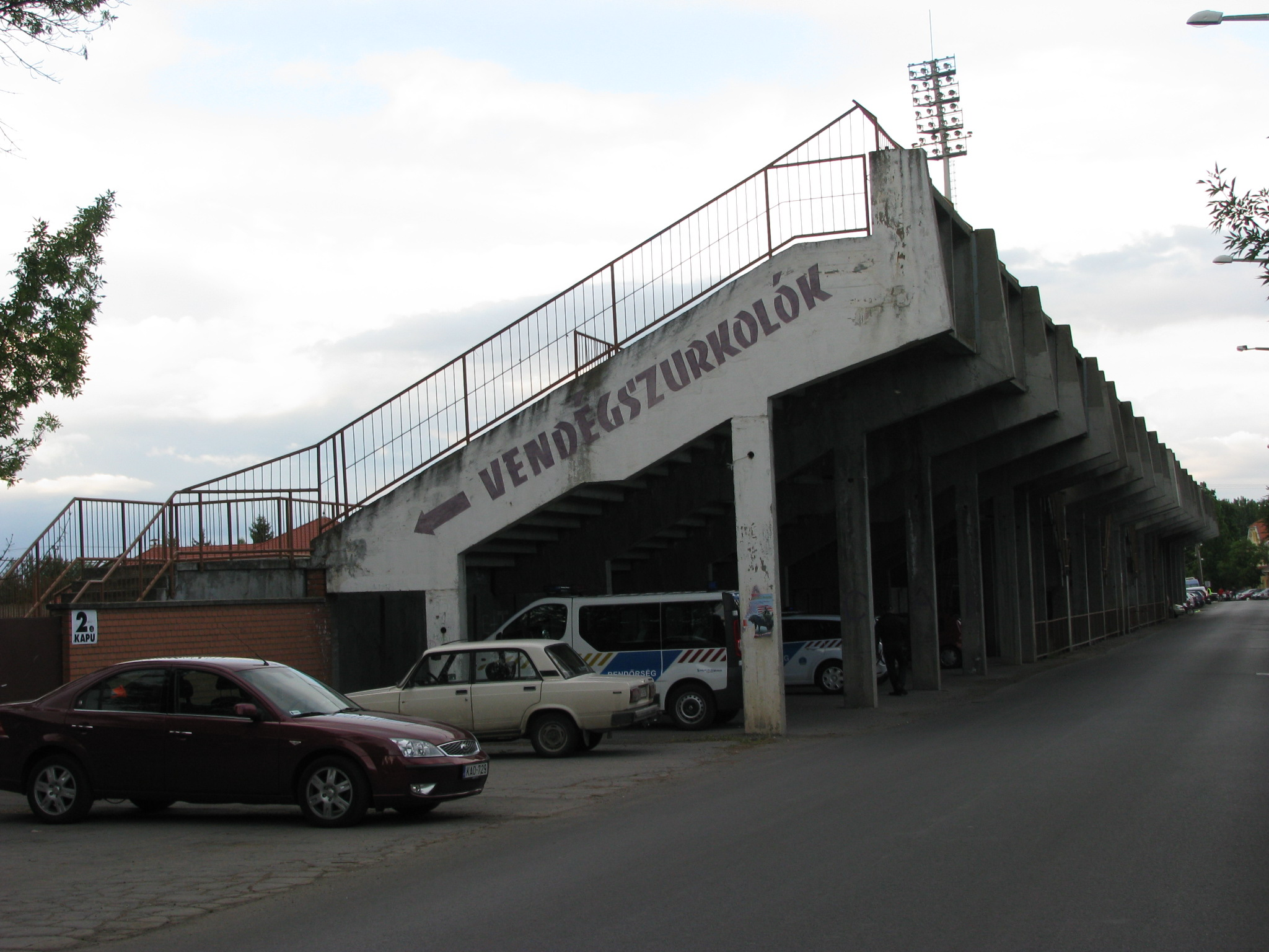 The south side of Kórház utcai stadion, the home stadium of Békéscsaba 1912 Előre SE in Békéscsaba.